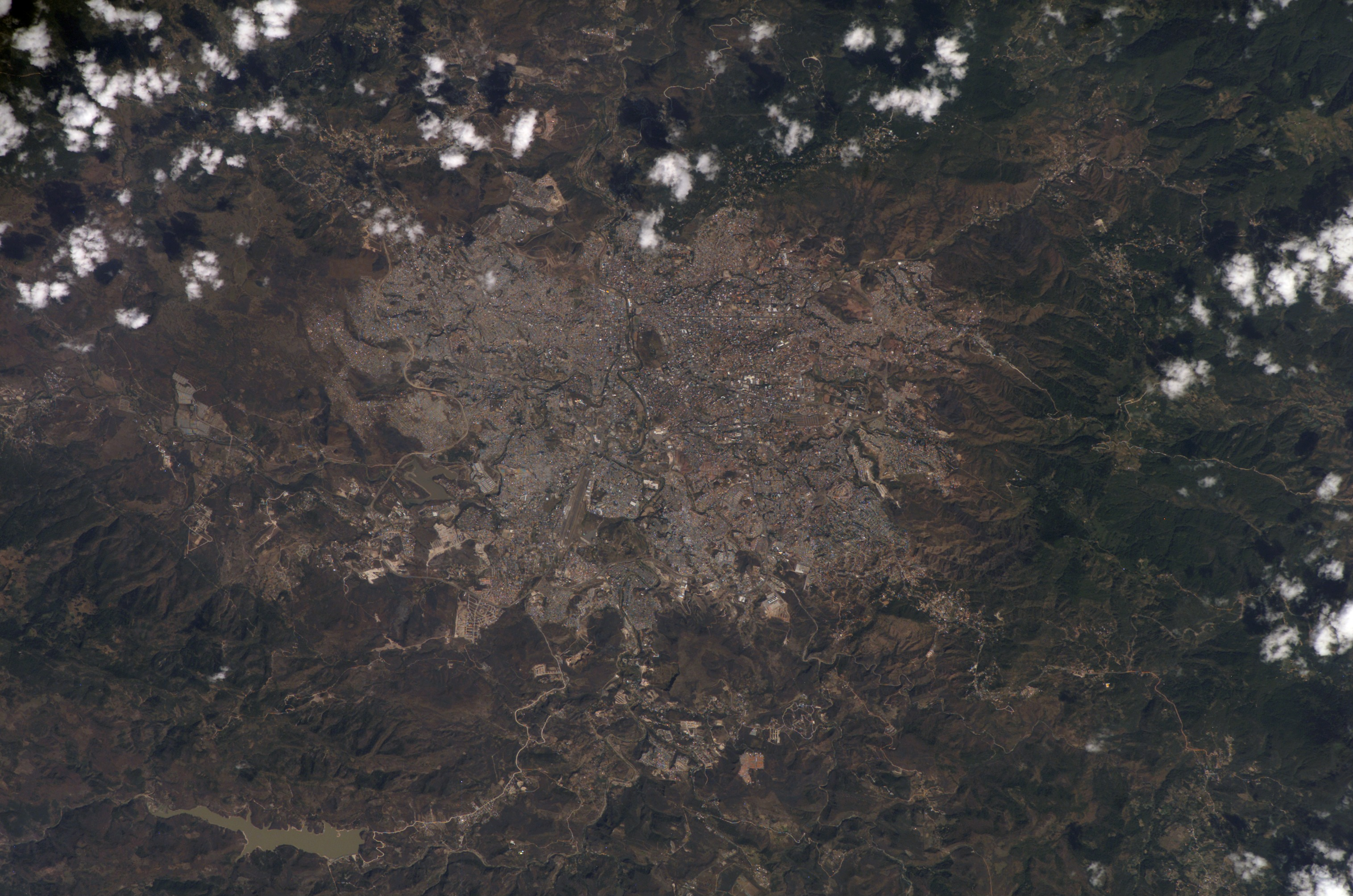 Aerial view of Tegucigalpa-Comayagüela — city in Honduras.